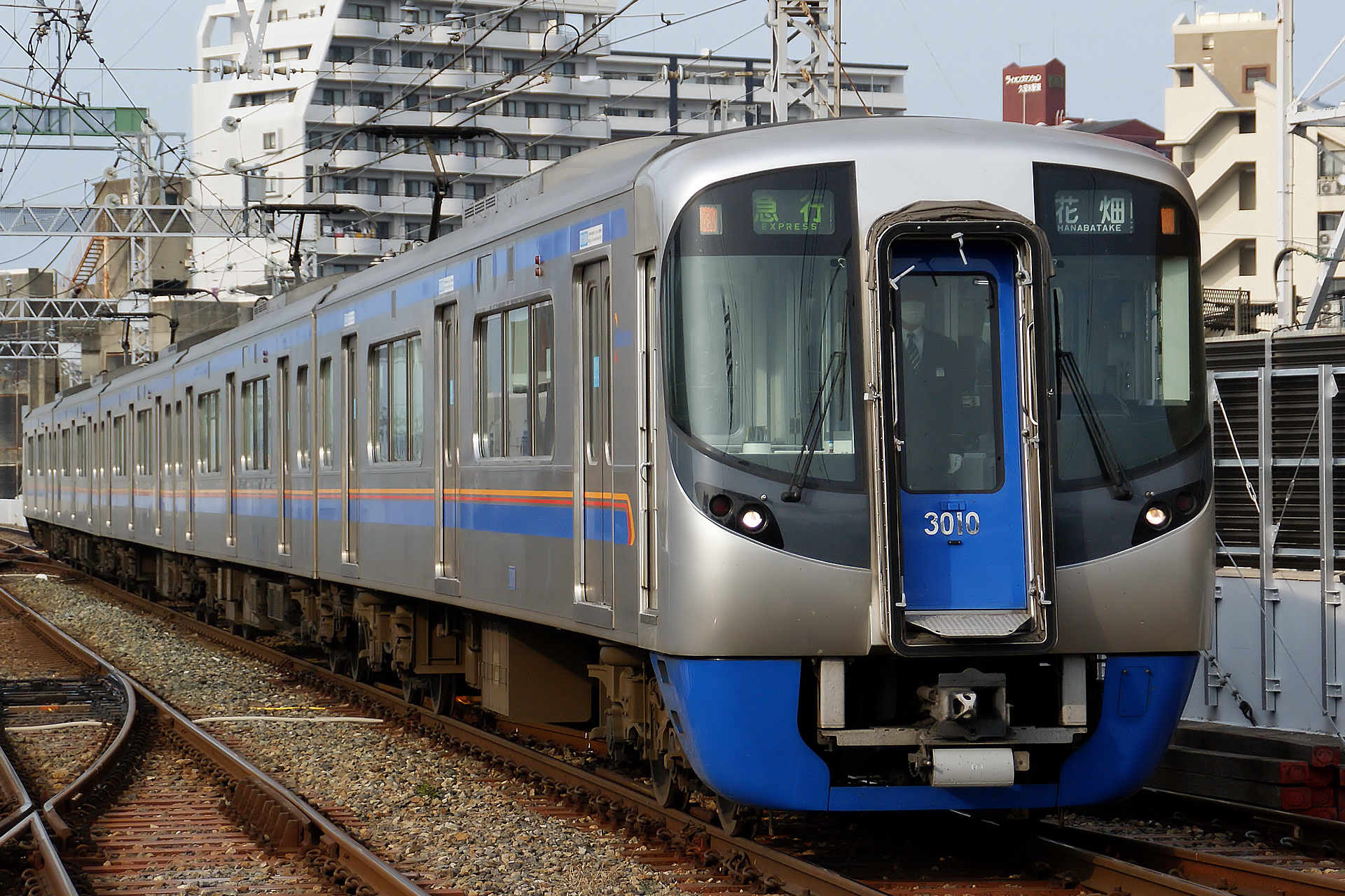 A Nishitetsu 3000 series 5-car EMU approaching Nishitetu-Kurume Station in Kurume, Fukuoka Prefecture, Japan